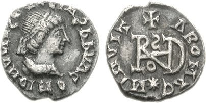 Ostrogoths. Theodoric. 493-526. AR Quarter Siliqua (0.83 g, 6h). Mediolanum (Milan) mint. Struck in the name of Anastasius I, circa AD 491-501. D И VИVSTATSAS PP VΛC (S's and C retrograde, PP retrograde and inverted), pearl-diademed bust right, wearing Ostrogothic-style garment; O M I (O M I inverted) beneath bust INVIT Λ ROMΛ, large “Theodericus” monogram with retrograde S; cross above, inverted C (star) M below. COI 49 (same dies as illustration); MIB 43a (same dies); cf. MEC 1, 119-20. Good VF, toned. Very rare.